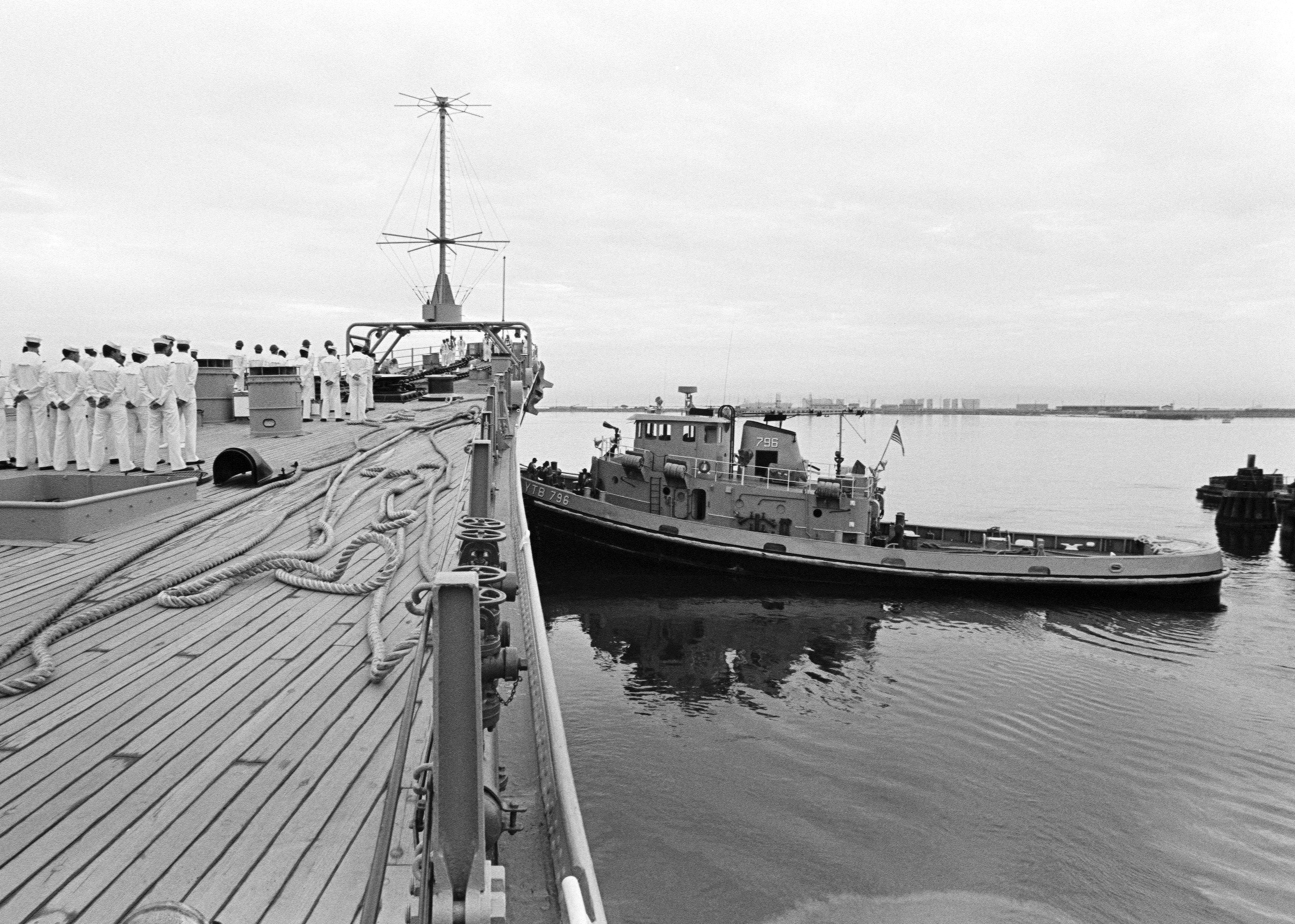 USS Missouri Sea and Anchor Detail stand at parade rest as Saco (YTB-796) maneuvers the battleship into port.at Naval Station Long Beach, CA. , 24 August 1988. DVIC photo # DN-SN-89-04591 by PH1 Terry Cosgrove, USN, a US Navy photo now in the collections of the Defense Visual Information Center.